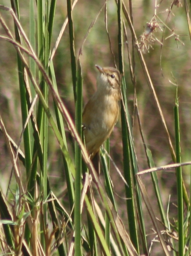 Paddyfield Warbler Acrocephalus agricola. Showing front side. At Dombivli, Maharashtra.